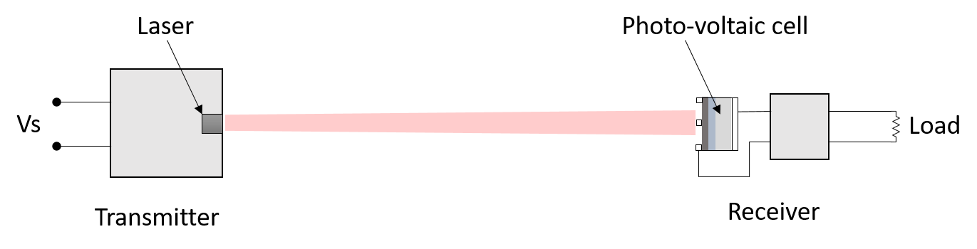 Wi-Charge wireless charging systems that includes transmitter and photo-voltaic receiver